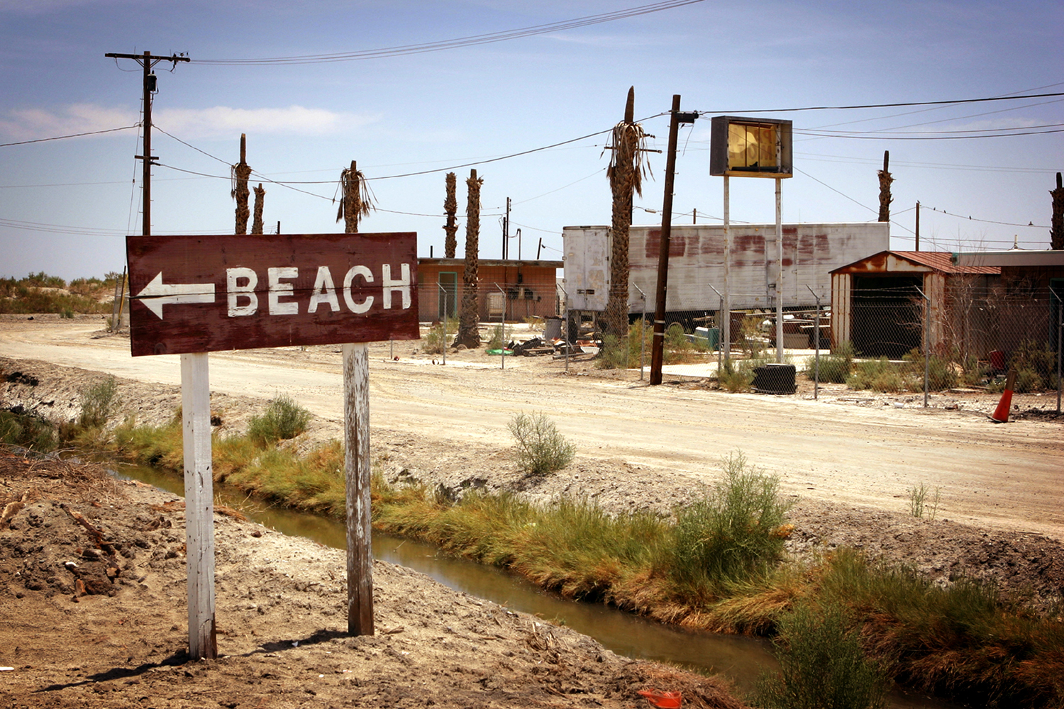 Abandoned businesses in Salton Sea Beach, California